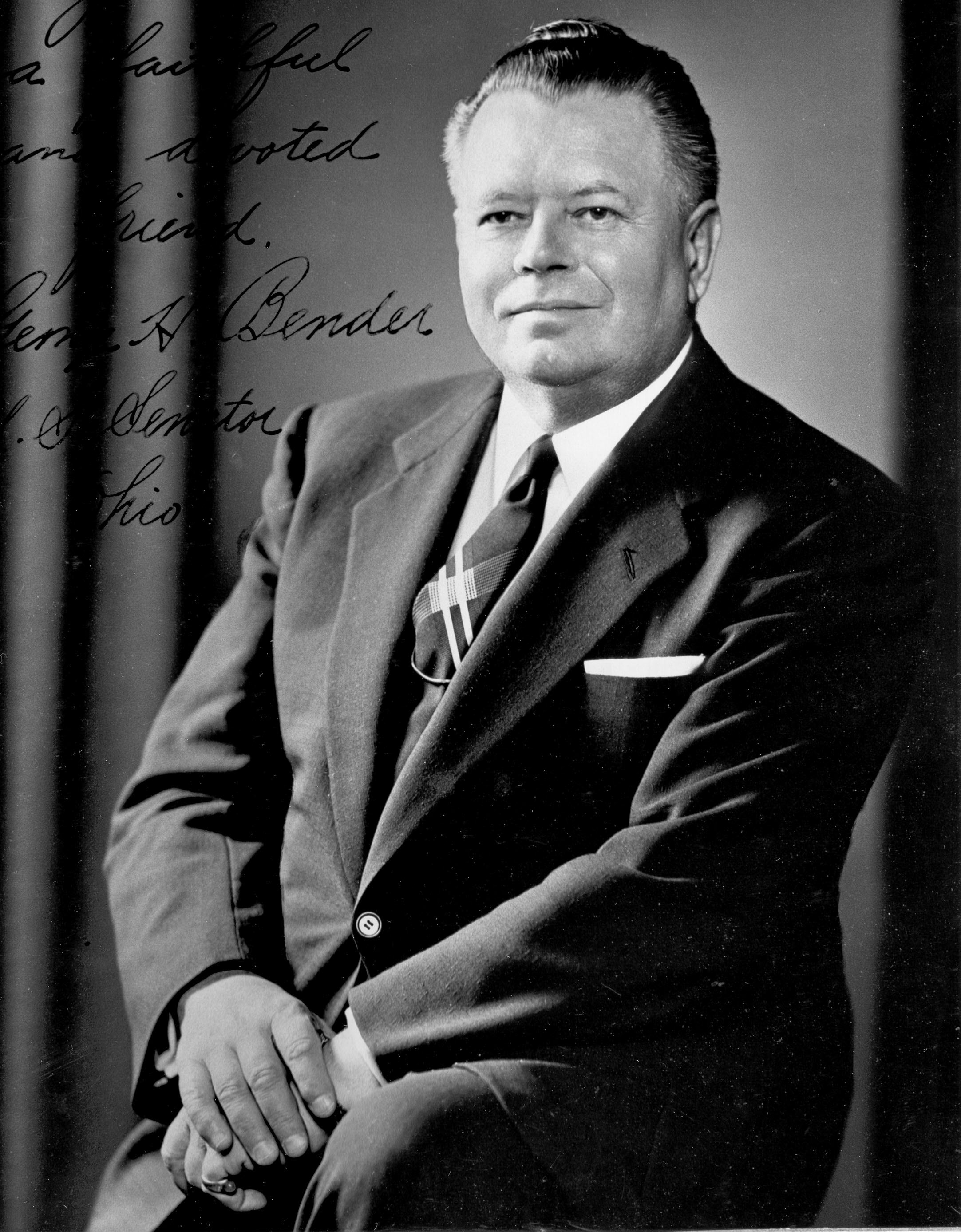 Portrait of Senator George Bender of Ohio